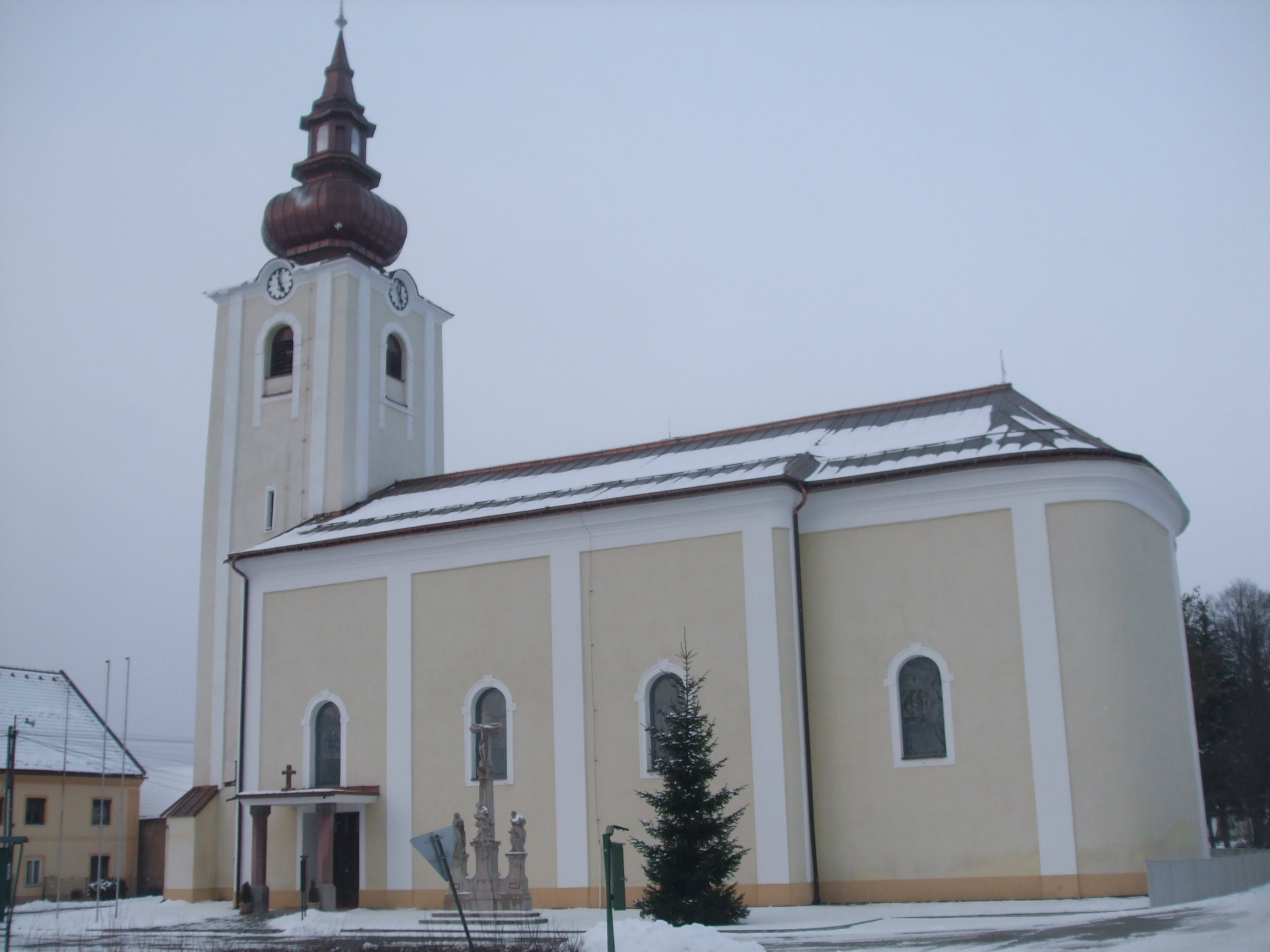 church in Predmier, Slovakia